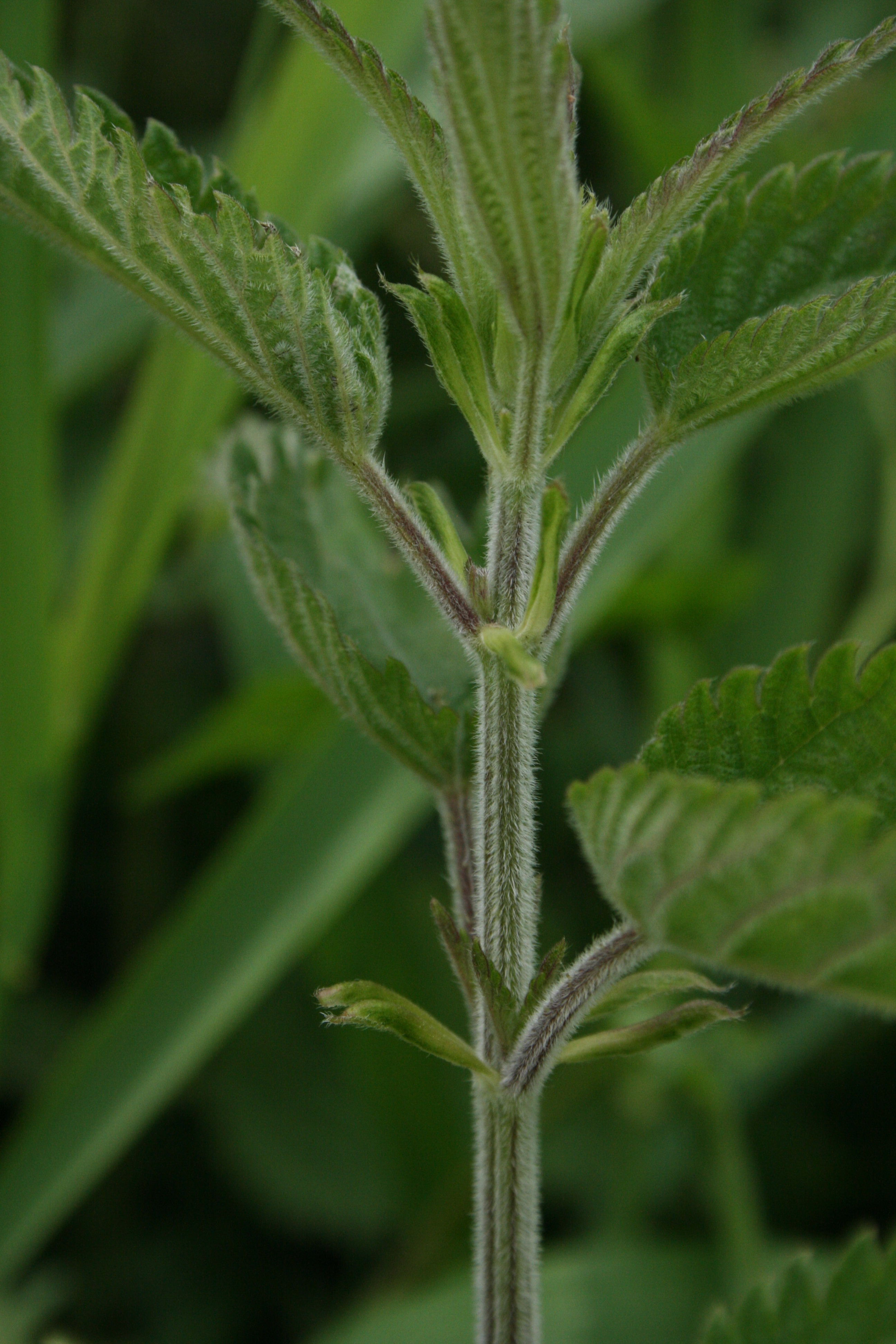 Urtica dioica ssp galeopsifolia (Urtica galeopsifolia), fen nettle or stingless nettle. Detail of fine hairs on stem, showing no stinging hairs. Near Fordingbridge, Hampshire, England.